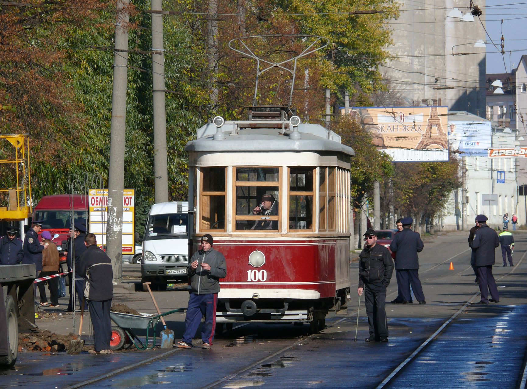 Old 1920s tram. Film «Daw» in Kharkov.